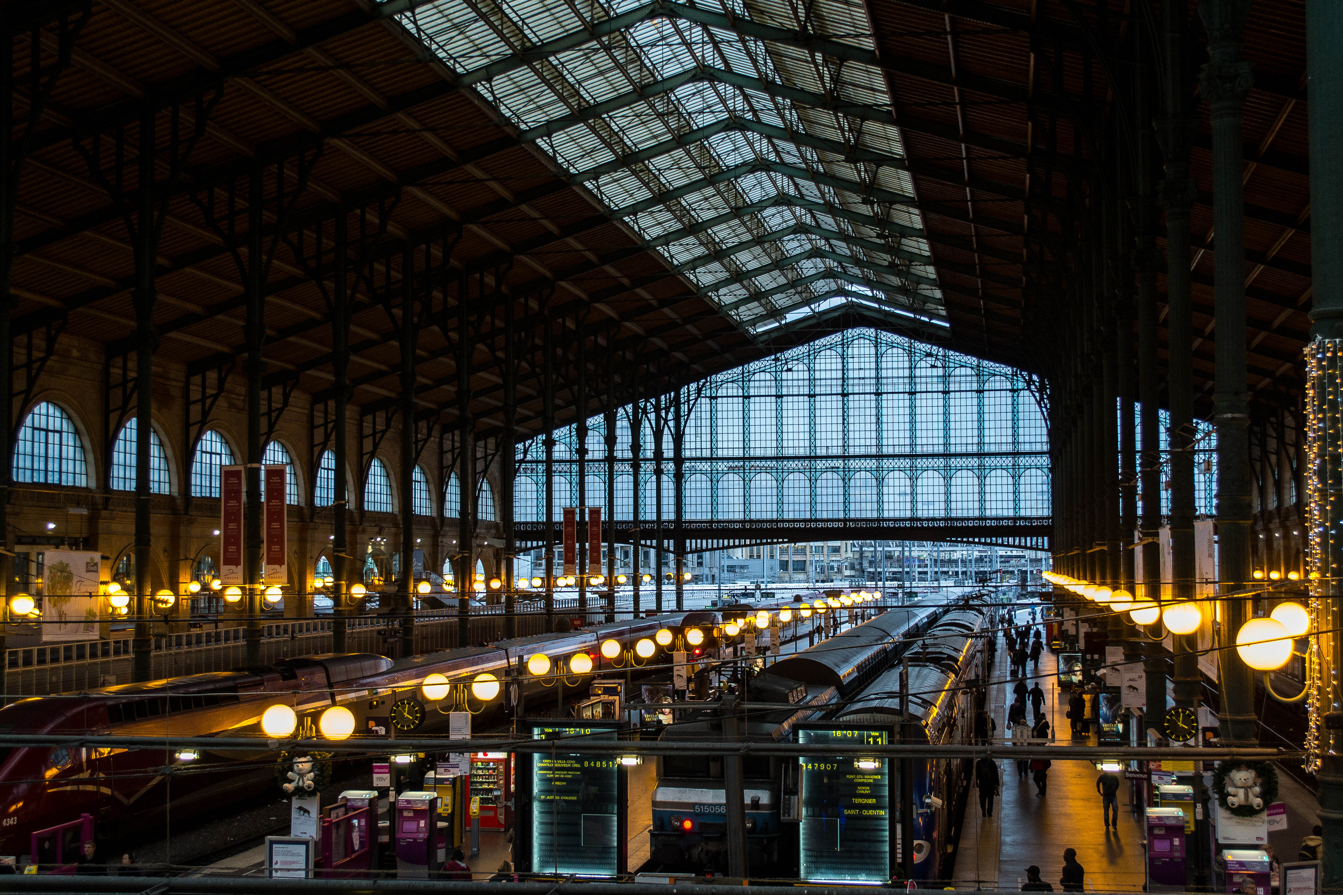 Gare du Nord